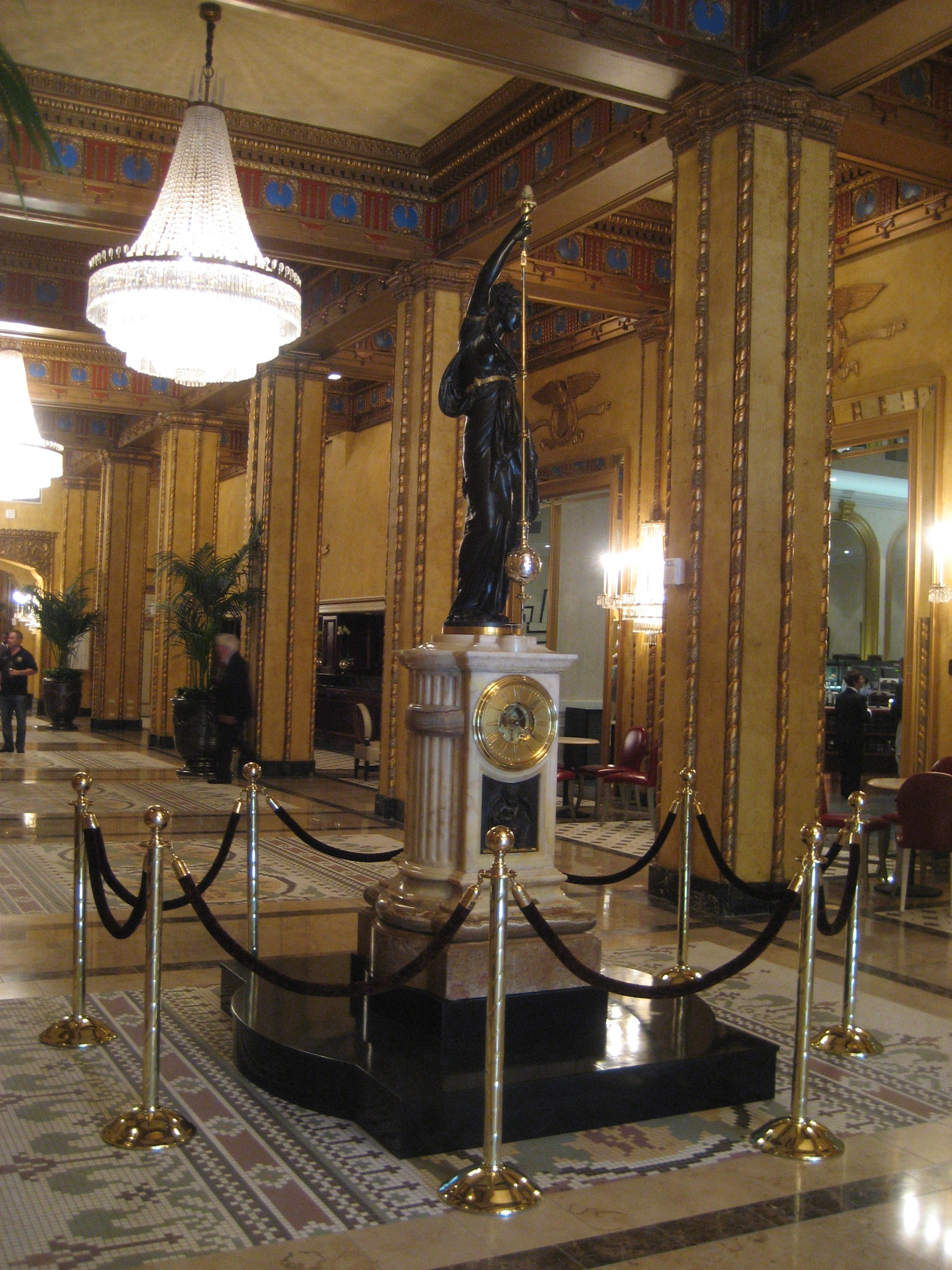 "Mystery Lady Timepiece", 19th century statuary clock, in main lobby, Roosevelt Hotel, New Orleans. First day officially reopened to the public since Hurricane Katrina.